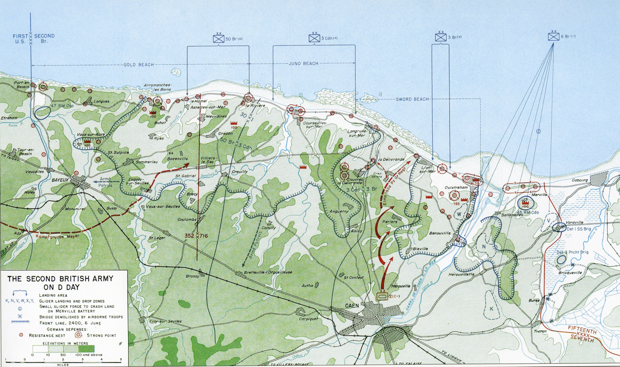 The Second British Army on D-Day